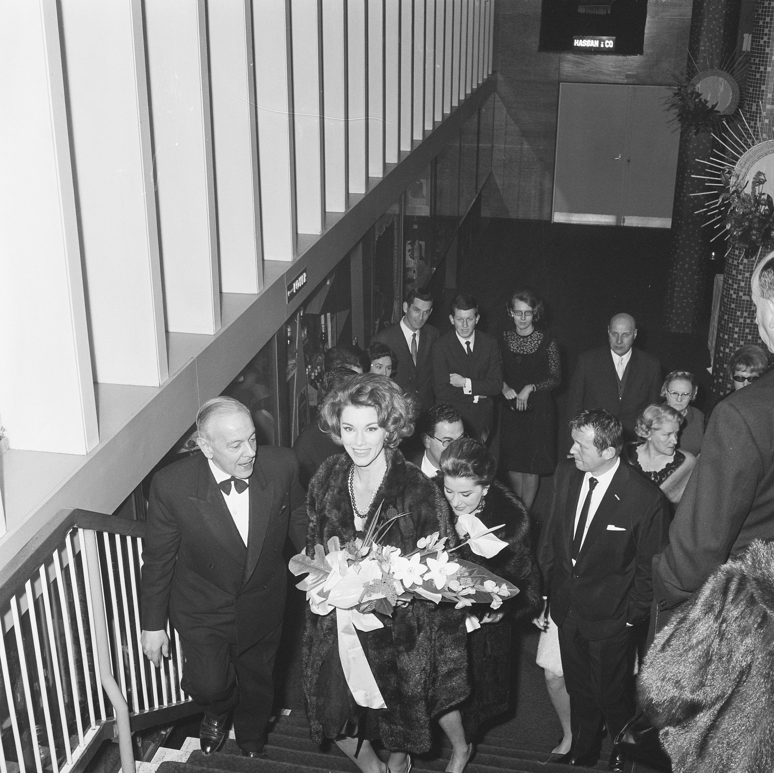 Linda Christian at the opening night of the Dutch film 10:32 in Rotterdam. Left: producer Joop Landré. Downstairs: Toon Hermans. Rotterdam, 26 January 1966